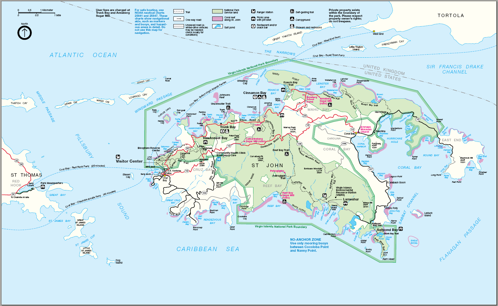 Map of Virgin Islands National Park — primarily on Saint John island, of the United States Virgin Islands.